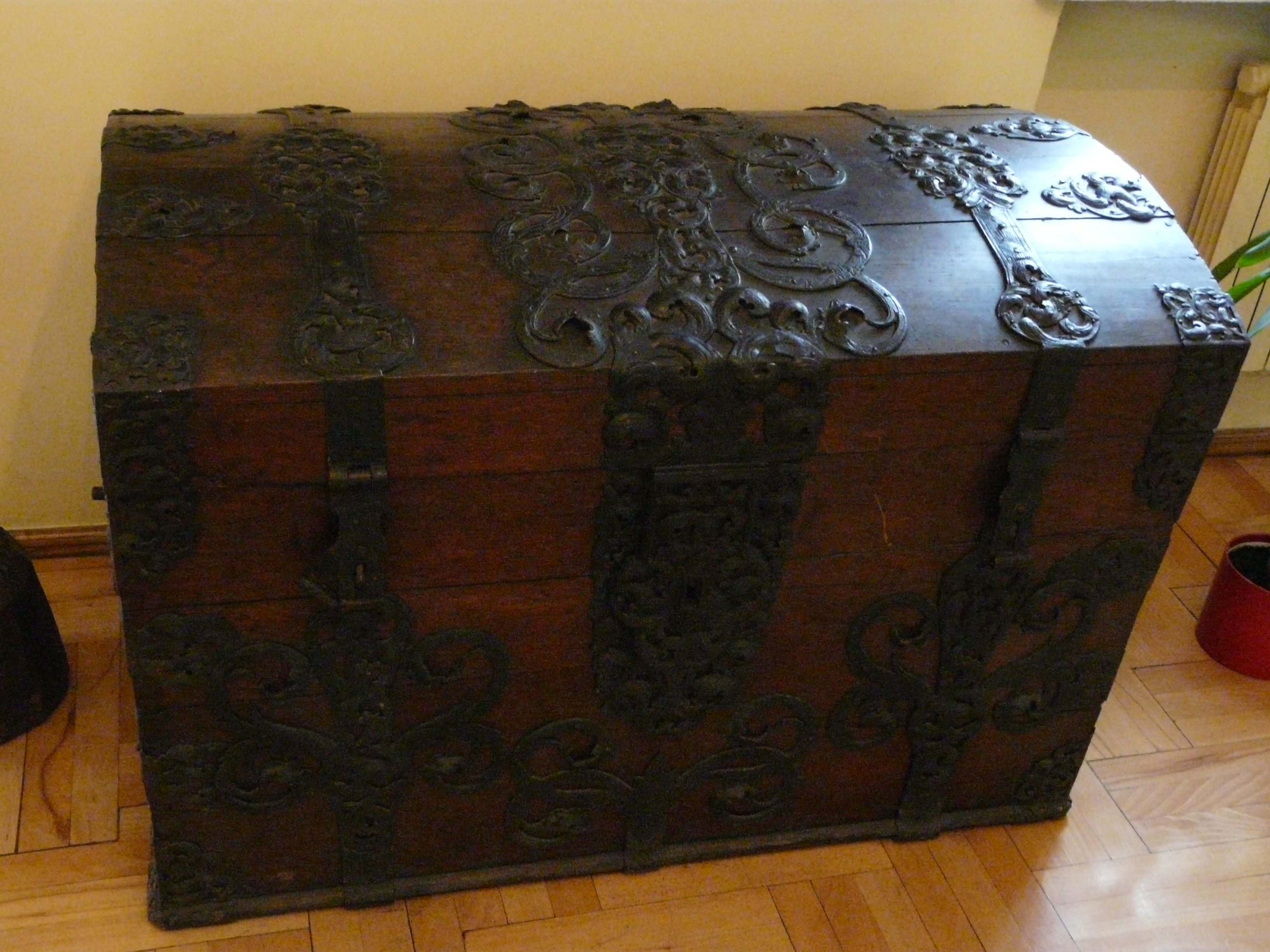 Museum of Archdiocese in Gniezno